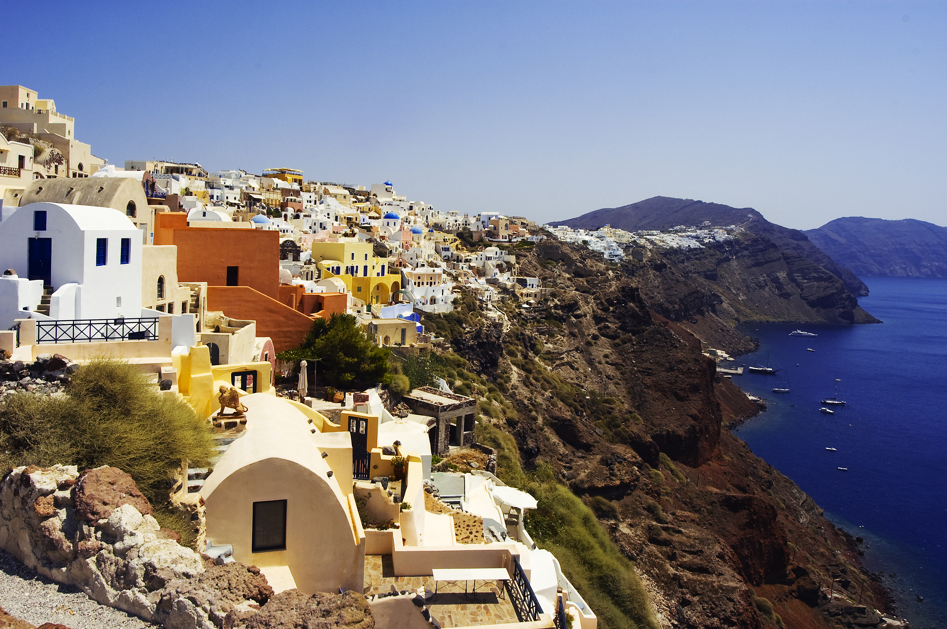 A caldera is a volcanic feature formed by the collapse of land following a volcanic eruption. They are often confused with volcanic craters. The word 'caldera' comes from the Spanish language, meaning "cauldron".